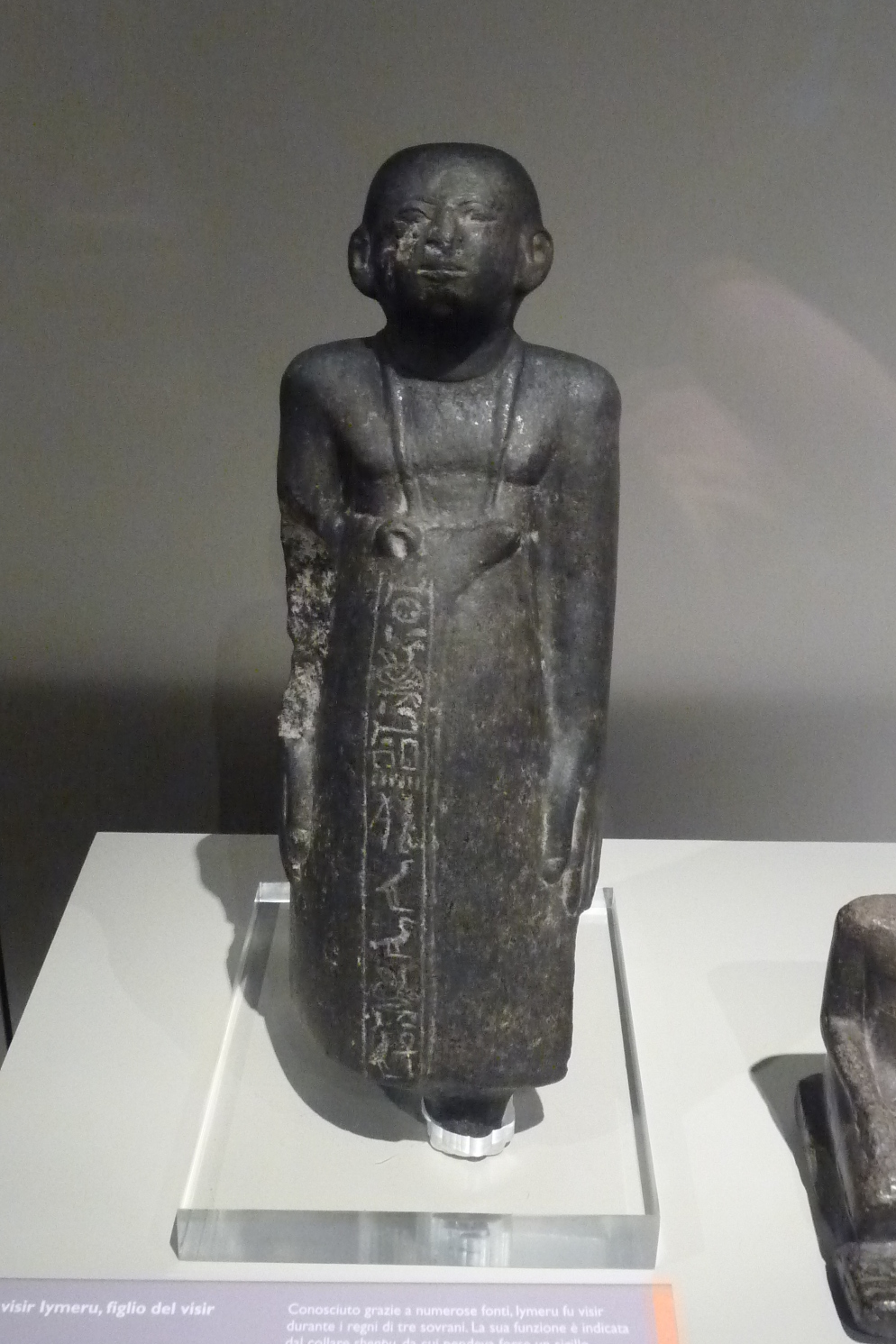 Statuette of the ancient Egyptian vizier Iymeru, son of vizier Ankhu. He was in charge under pharaohs Khendjer, Imyremeshaw and beyond. The head is not the original one and stylistically belongs to the New Kingdom; perhaps was put on the statue during the 19th century. Granodiorite, unknown provenance, 13th Dynasty, Middle Kingdom. Turin, Museo Egizio, S.1220.